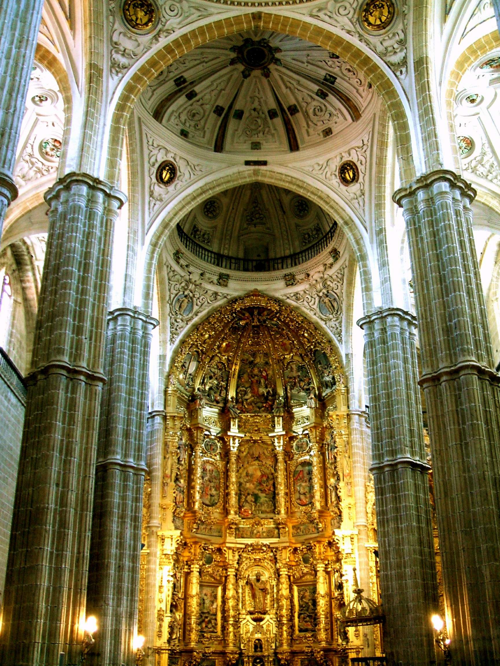 Cabecera de la iglesia de Santiago, Medina de Rioseco (Valladolid, Castilla y León, España)